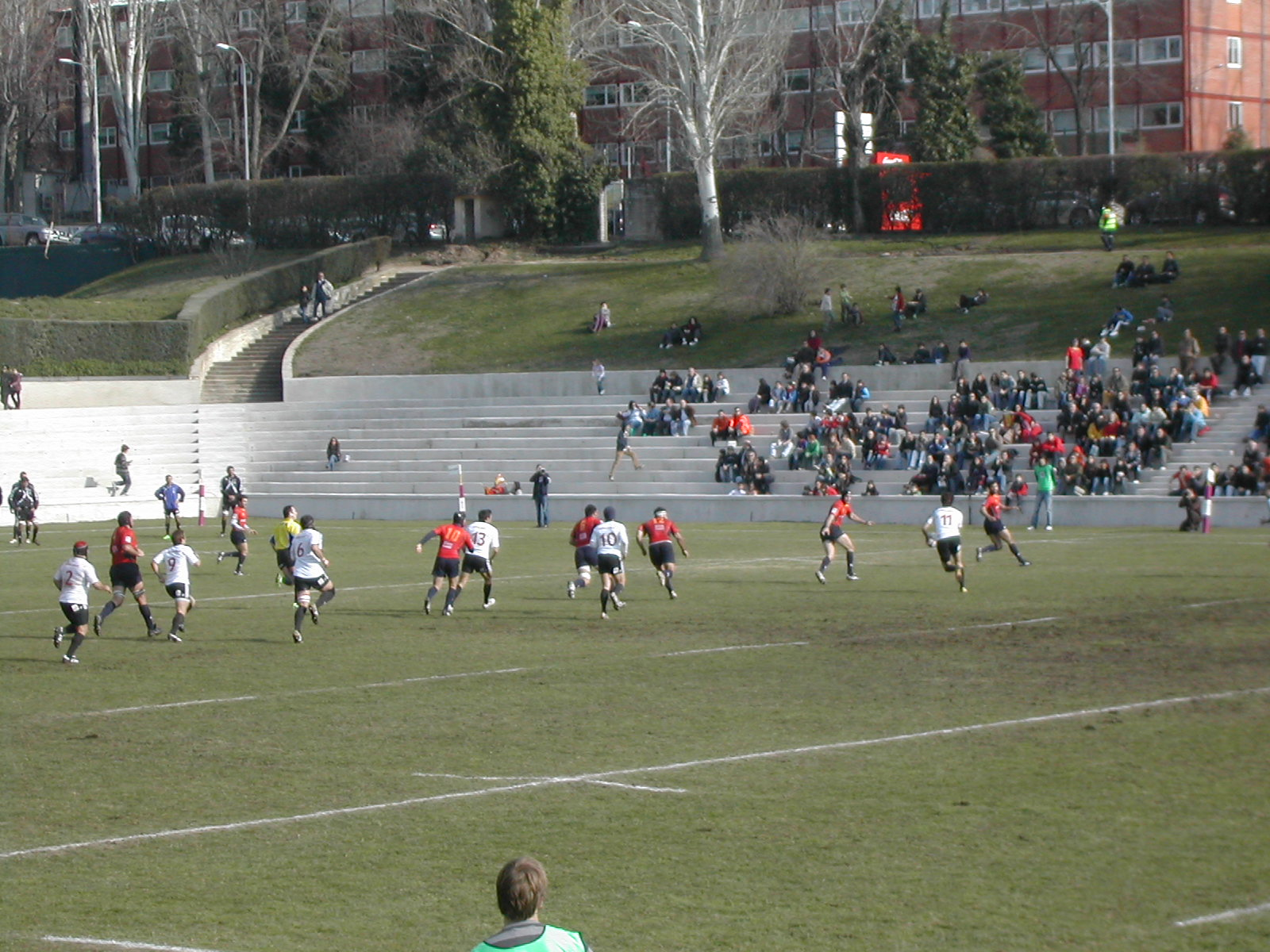 A phase of the match between the national rugby union teams of Spain and Portugal in Madrid